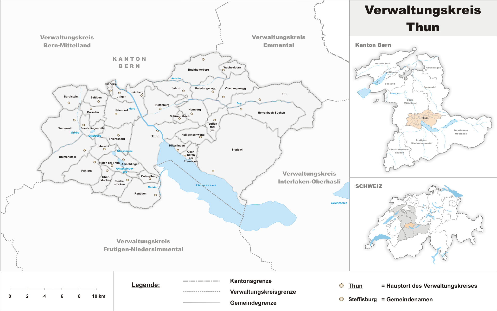 Municipalities in the district of Thun